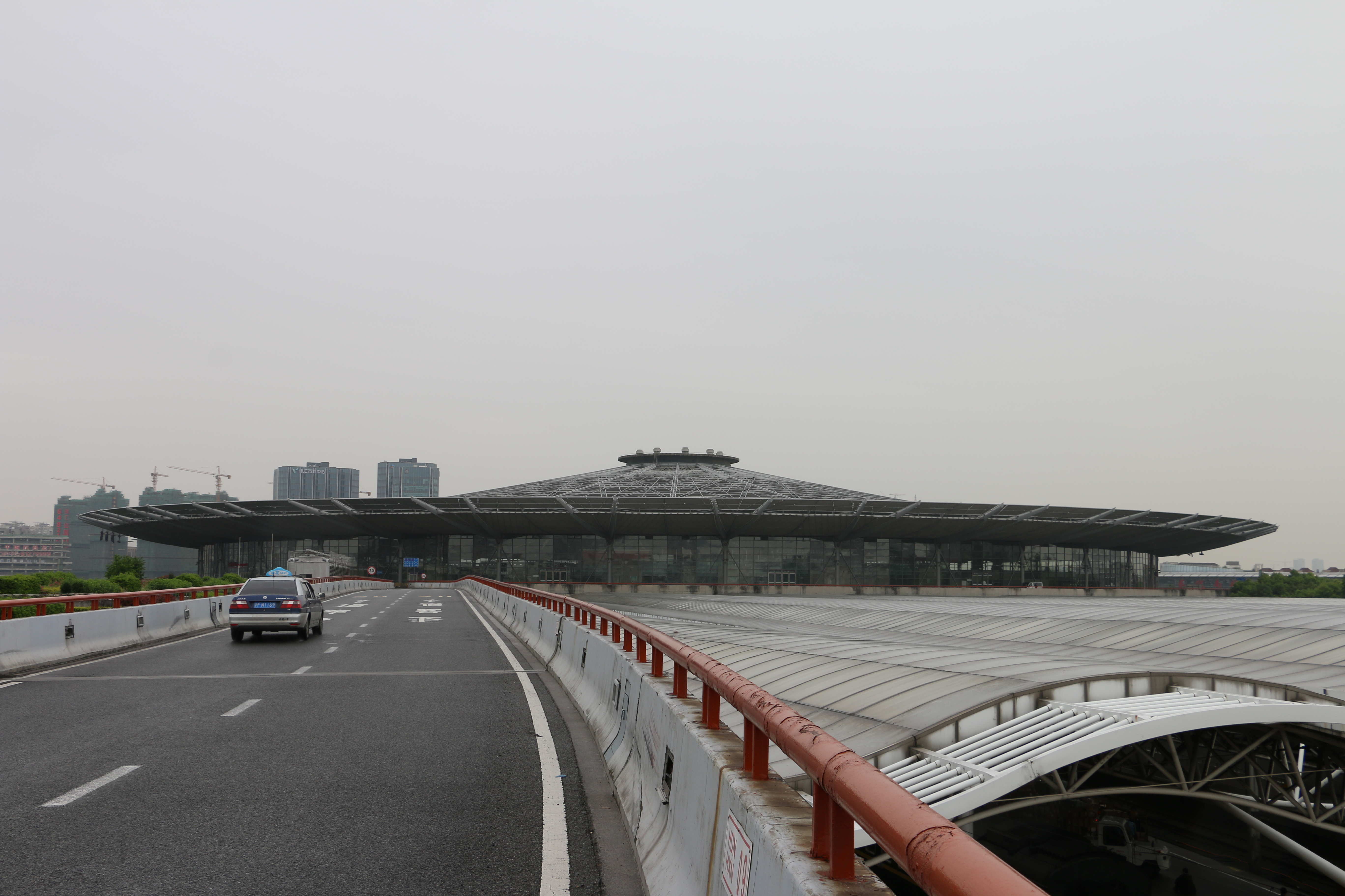 201604 UFO-Shape SNH